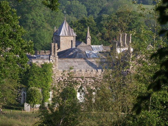 Hayne in the parish of Stowford, Devon. Derelict in 2004. Cherry and Pevsner spell it "Haine"; according to them it was built about 1810 and altered after 1864, a complete Gothic remodelling of a 16th c. house, a seat of the prominent Harris family.(Pevsner, Nikolaus & Cherry, Bridget, The Buildings of England: Devon, London, 2004, pp.465-6) Seen here from the lane between Hayne Cross and Stowford.